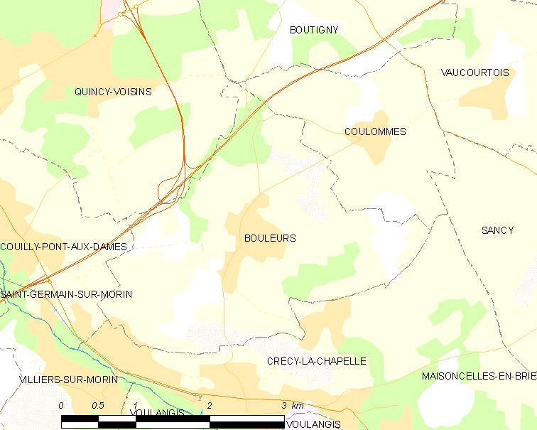 Map of French municipality Bouleurs